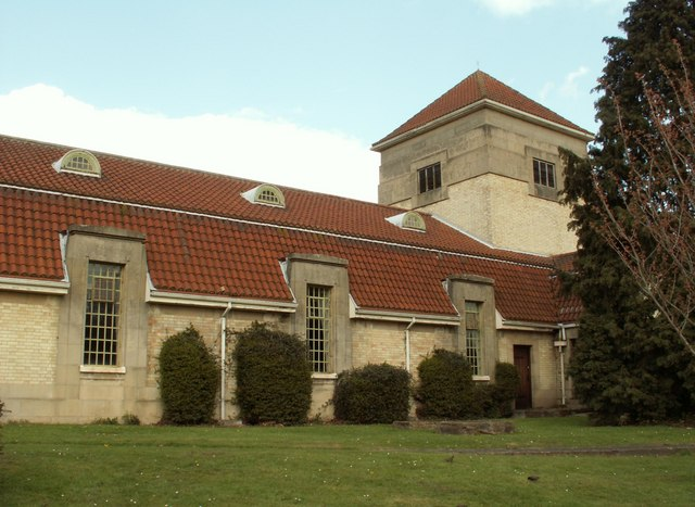 St. Luke's church at Runwell Hospital The hospital was founded in 1934 as a mental hospital and stayed that way until 1955.